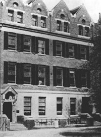 1859 picture - National Hospital for the Paralysed and Epileptic founded here by Julius Althaus in 1866